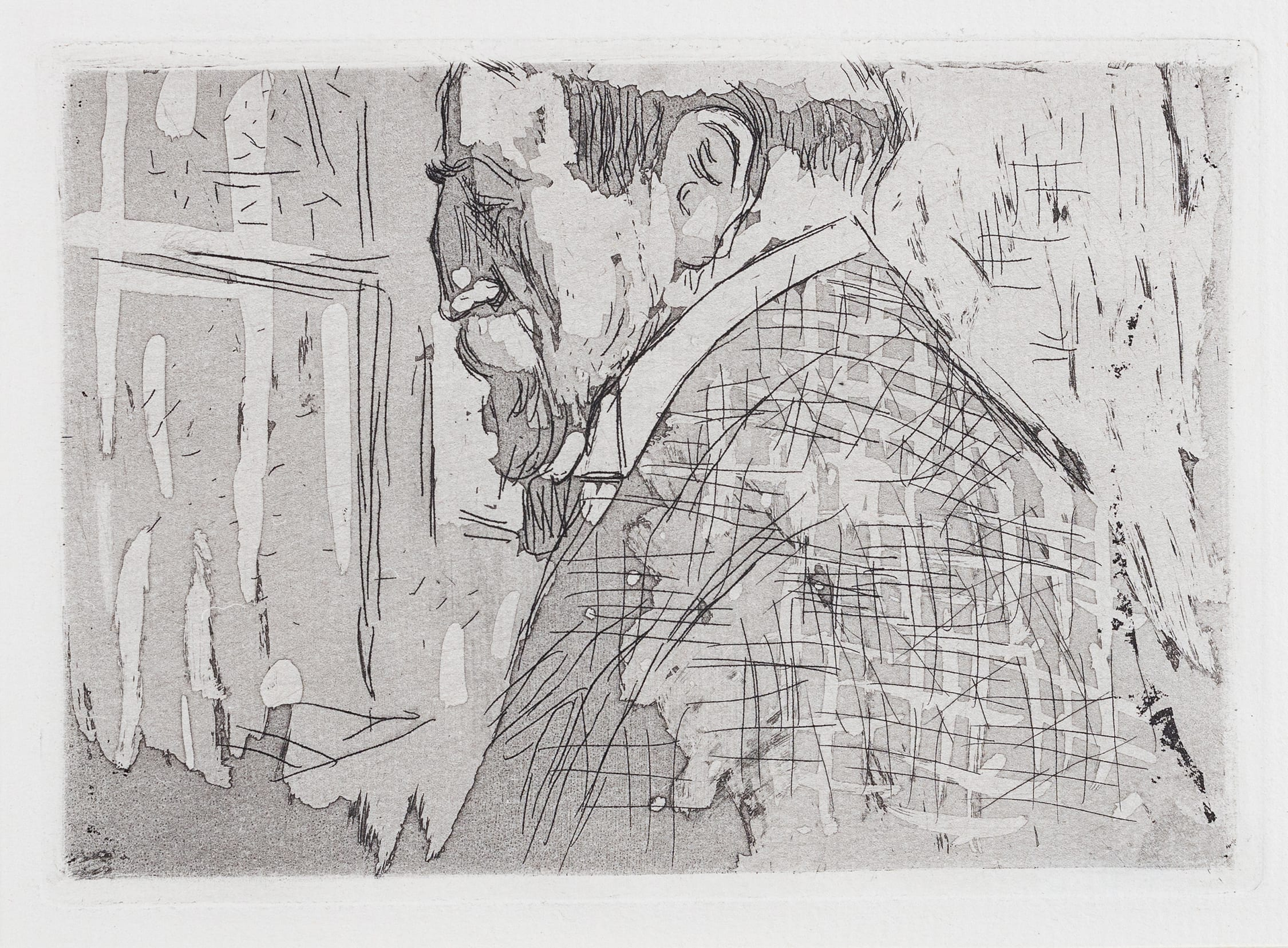 Offered for sale by Abbott and Holder in March 2020 when it was described as "Portrait of Theo Van Rysselberghe. Etching and aquatint. c.1898. 3.75x5.5 inches." For another copy of this work, see Q80082088.